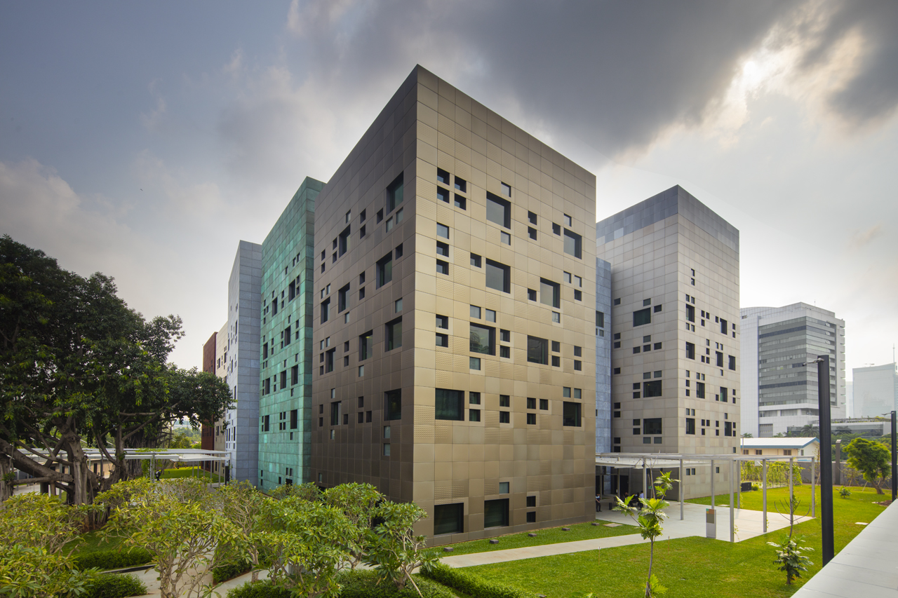 The New Australian Embassy in Jakarta, completed in 2016